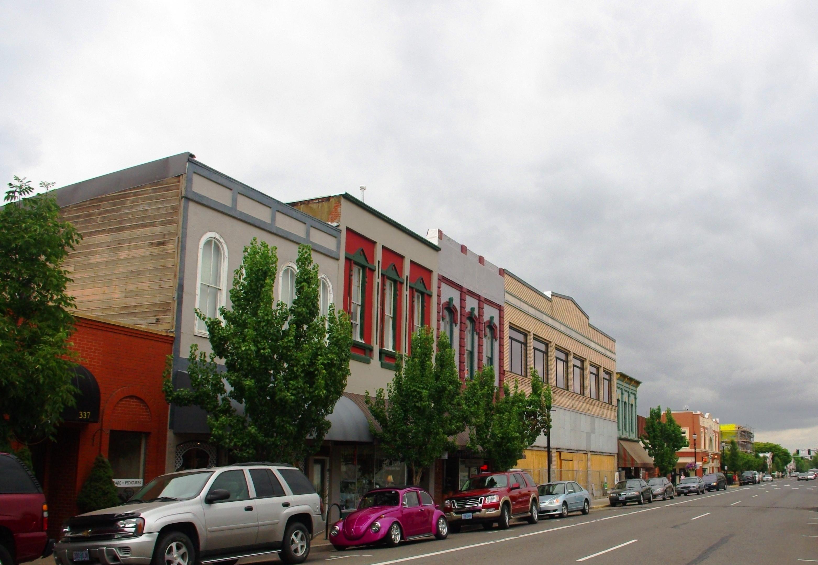 Downtown street in Albany, Oregon, USA.